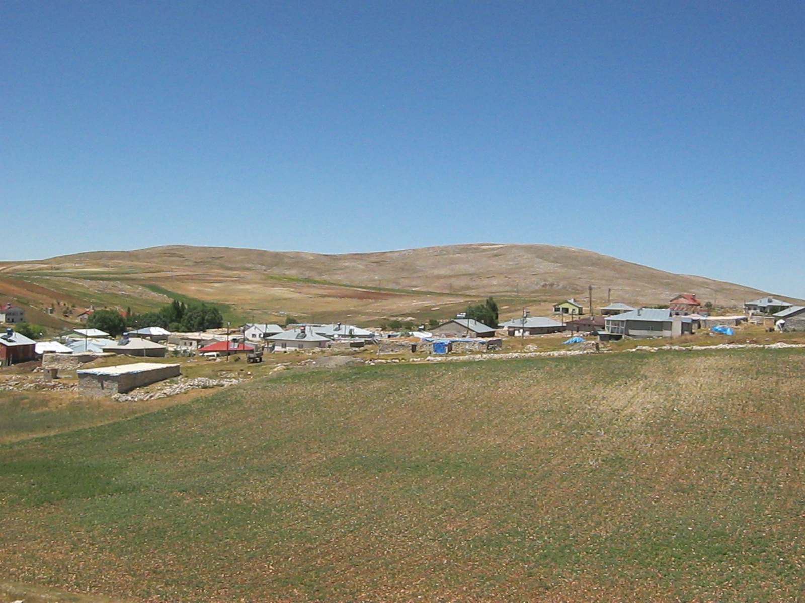 General view of Haticepınar, Afşin.